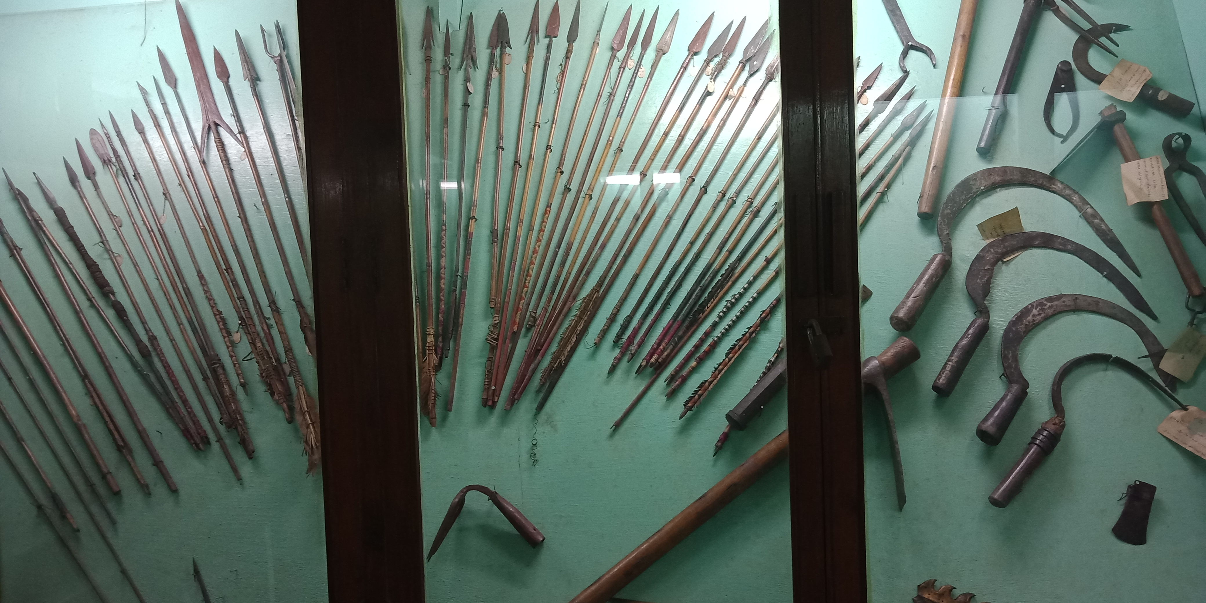 These are weapons used by Santali tribe for the purpose of hunting.